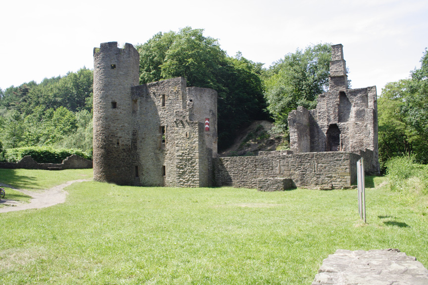 The Castle Ruin Hardenstein in Witten, Germany